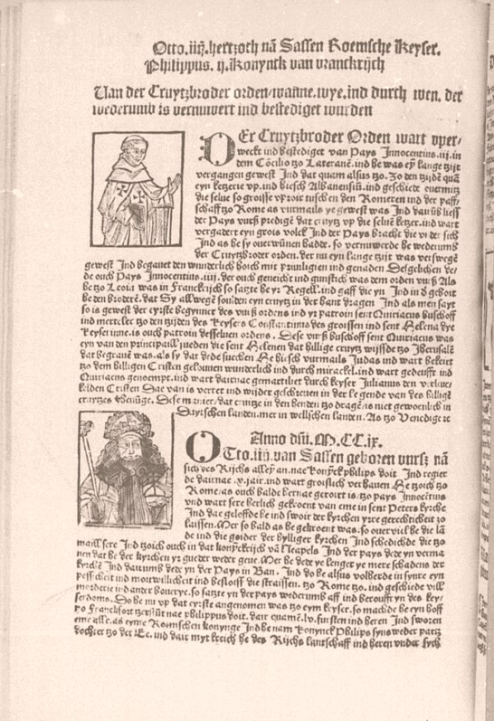 Koelhoff, Johann (der Jüngere), Die Chronica van der hilliger Stat van Coellen vom Jahre 1499, Holzschnitt, Papier, Köln, rba_mf221316.